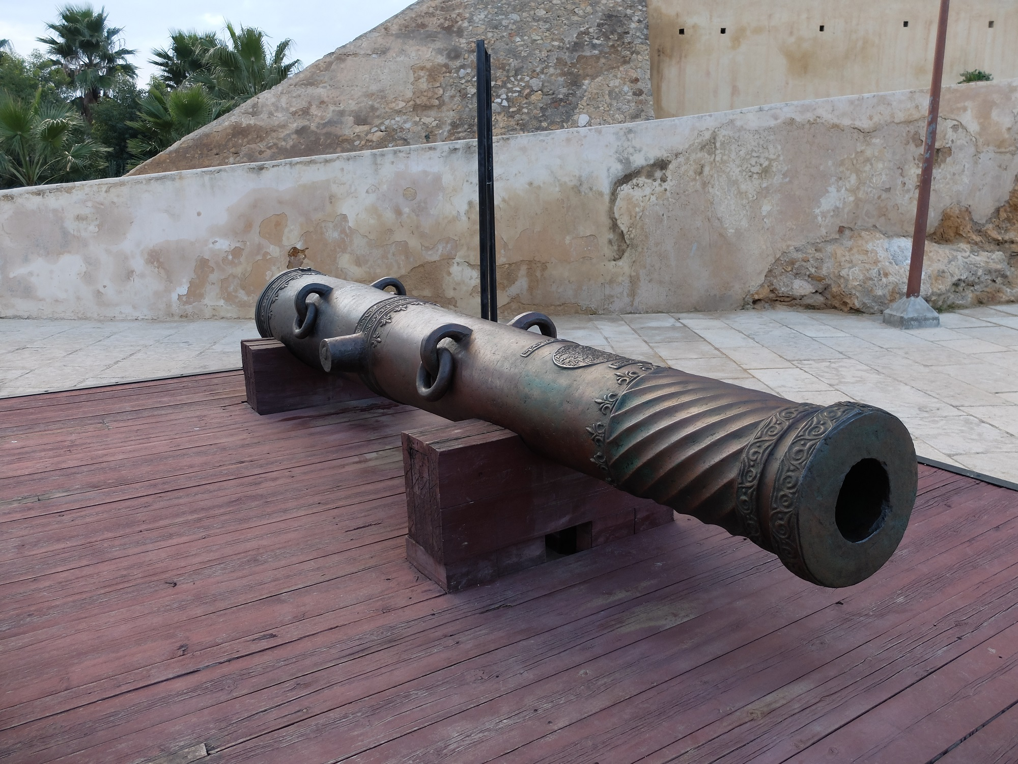 The Saadian cannon used in the Battle of the Three Kings (1578), manufactured in 1571, and now on display in front of the Museum of Arms, at the Borj Nord in Fes.